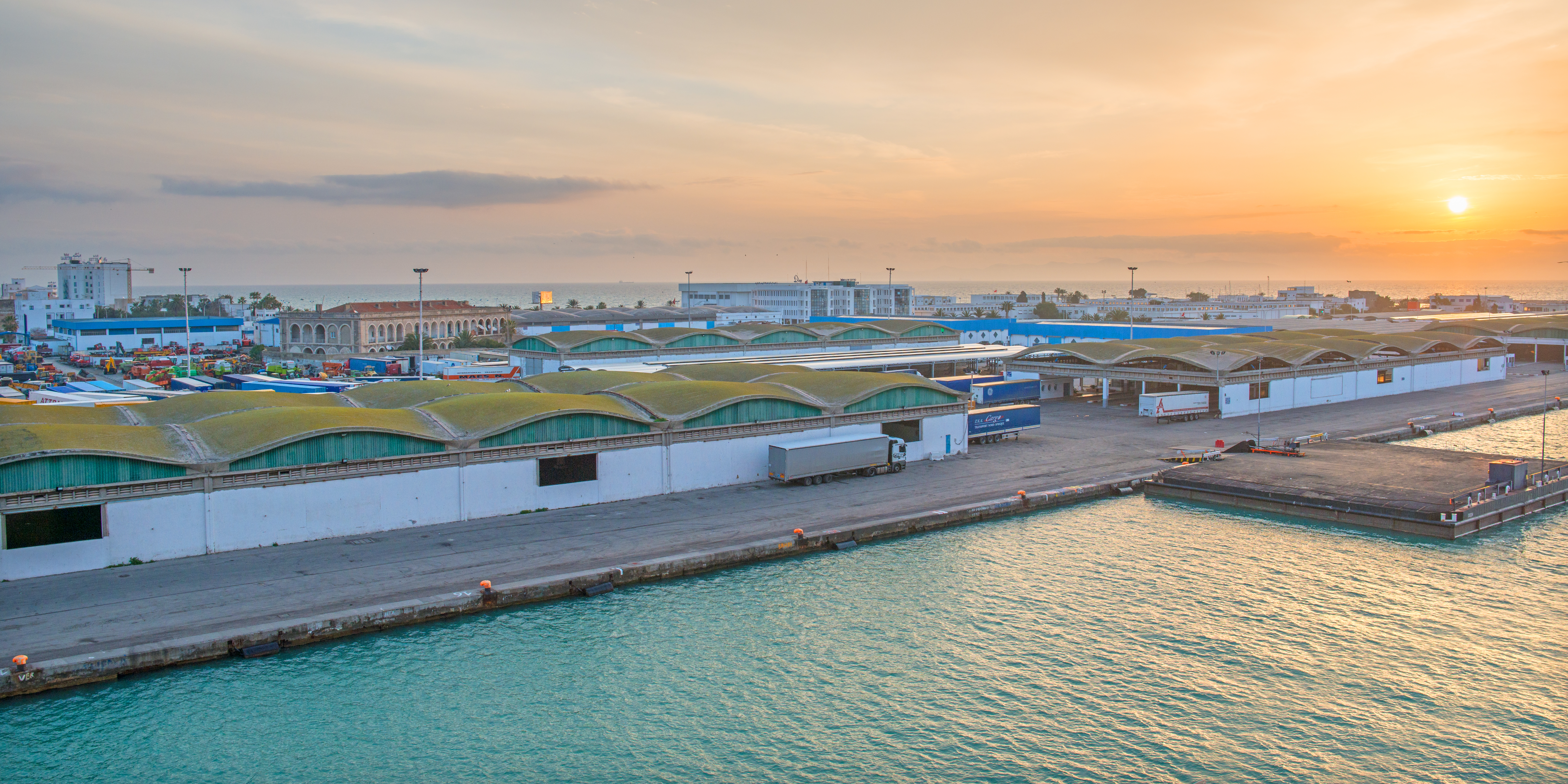 Tunis Tunisia February 2013